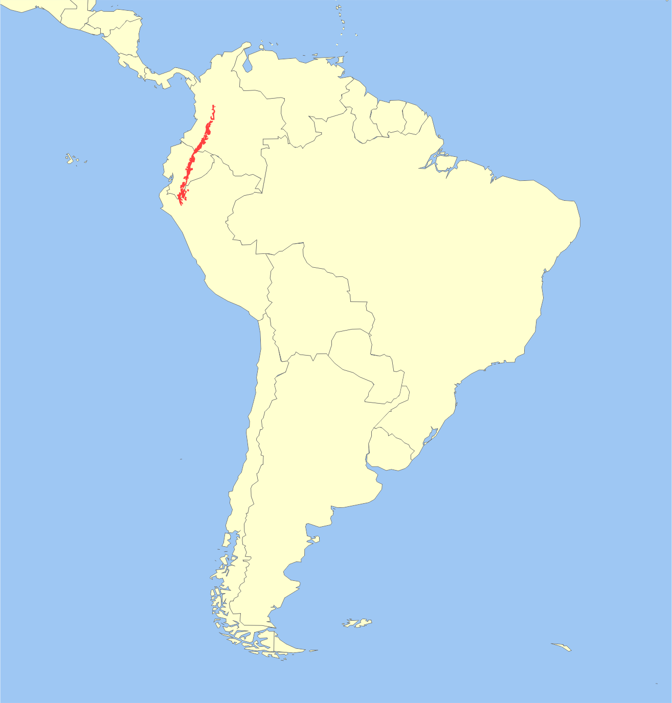 Geographic Distribution of Dwarf Red Brocket (Mazama rufina).